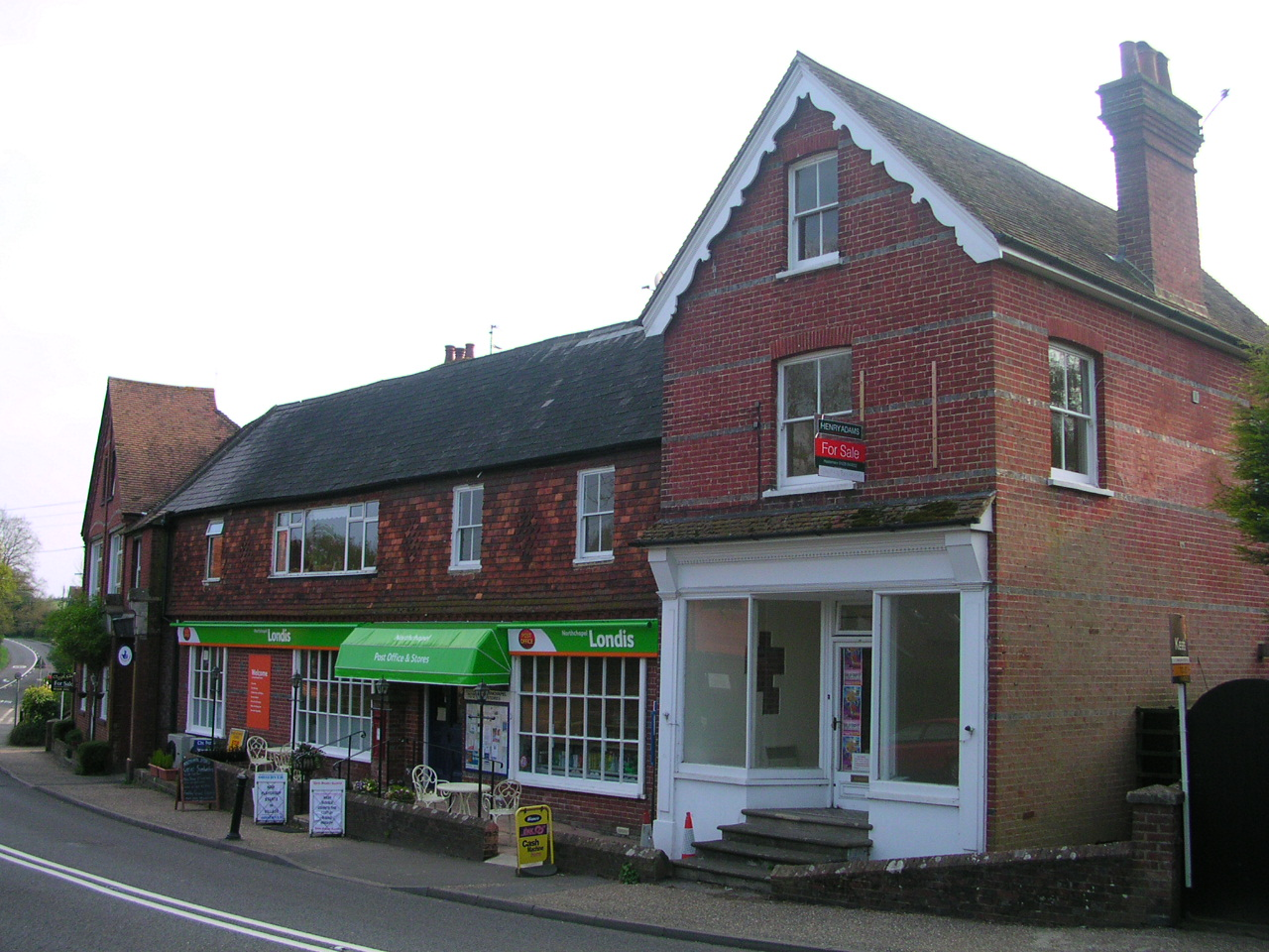 Northchapel village stores, once run by the Society of Dependants, Northchapel, West Sussex, England.